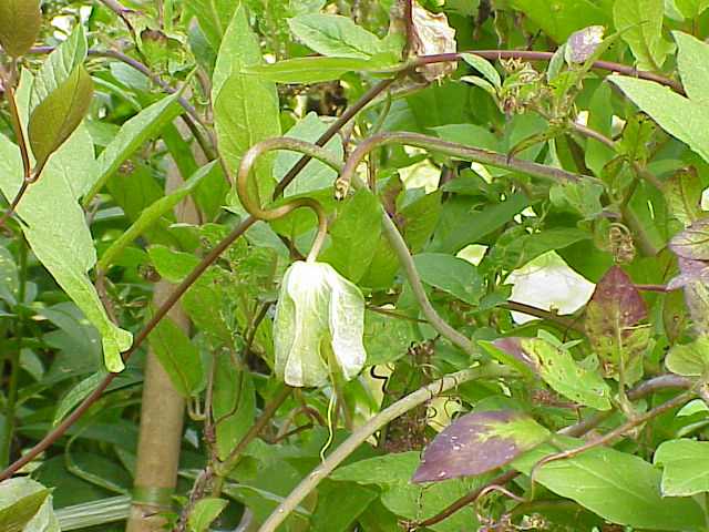 Species: Cobaea scandens Family: Polemoniaceae Image No. 2